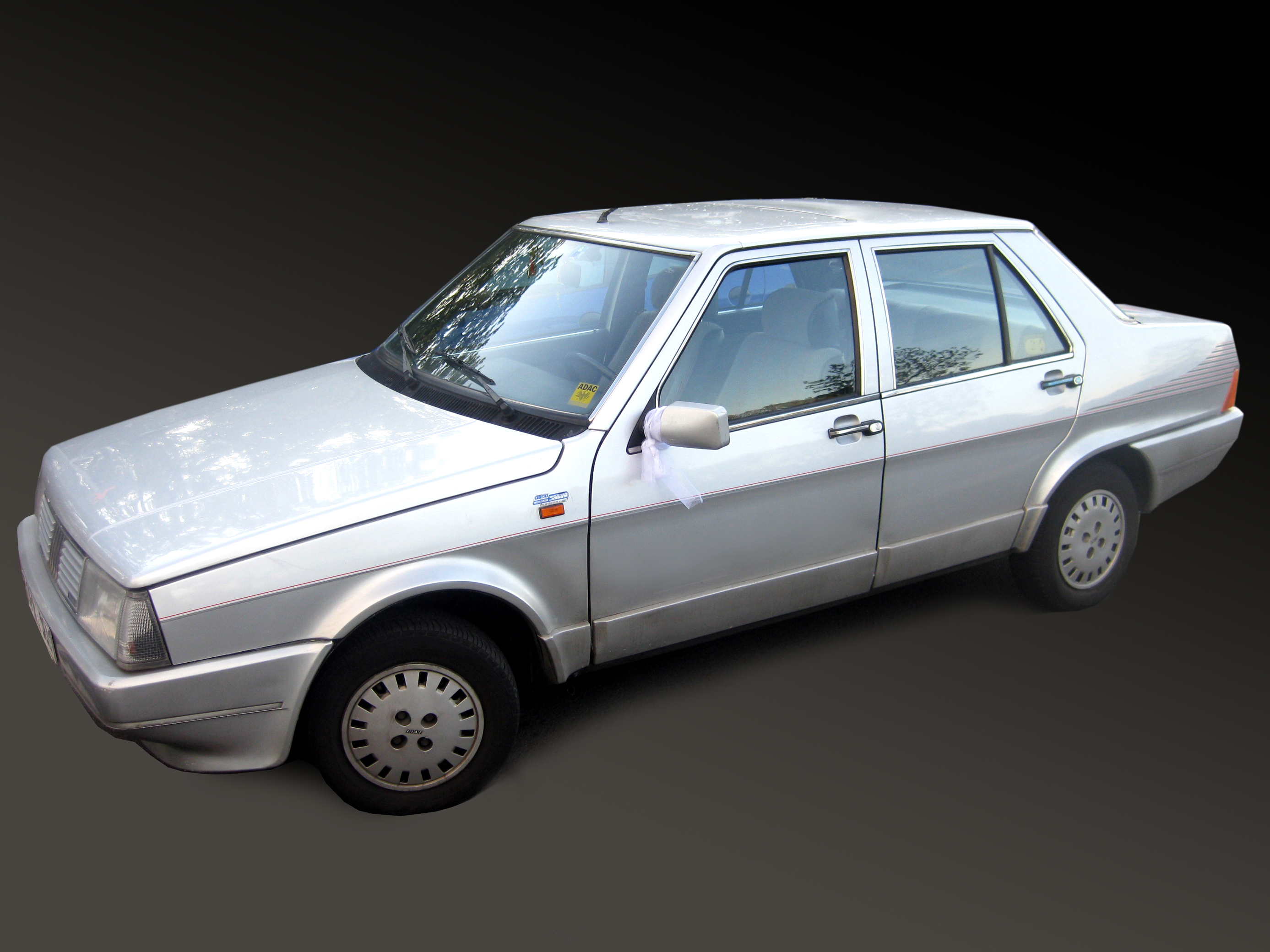 Fiat Regata 75ie Eleganza